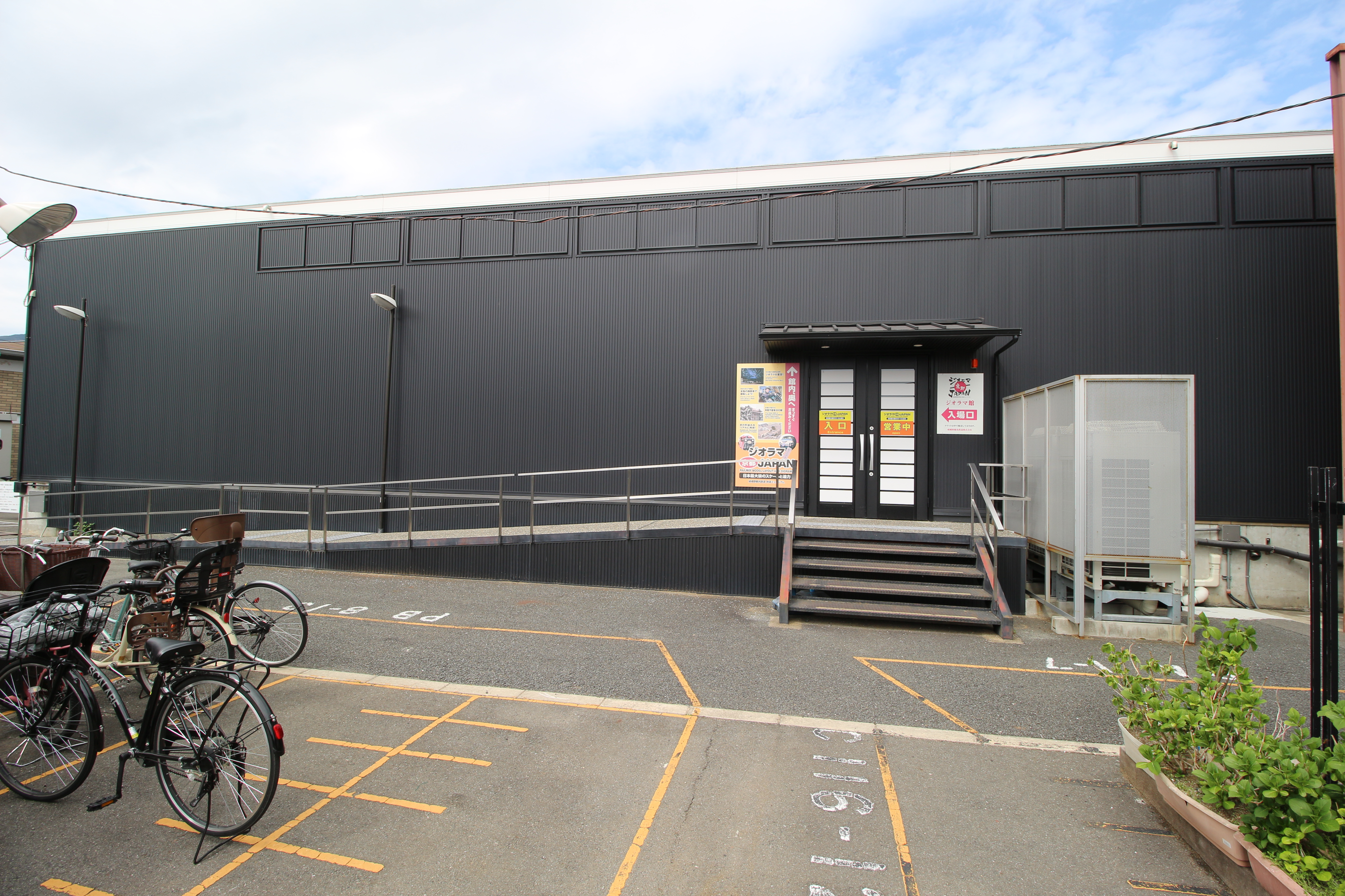 Diorama building in Kyoto, Japan.